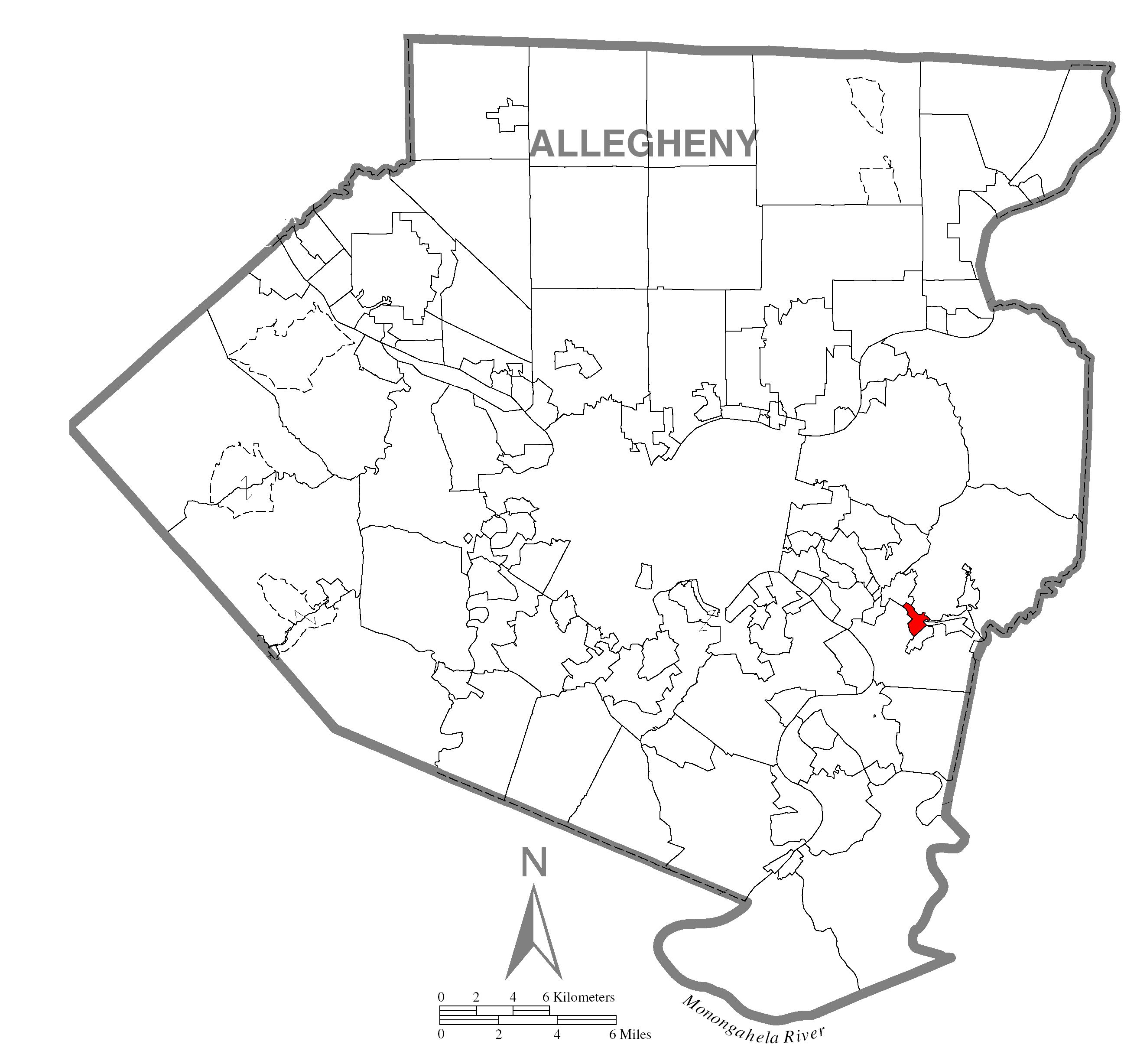 A map of Allegheny County showing Wilmerding, Pennsylvania (alternate) highlighted on the map.